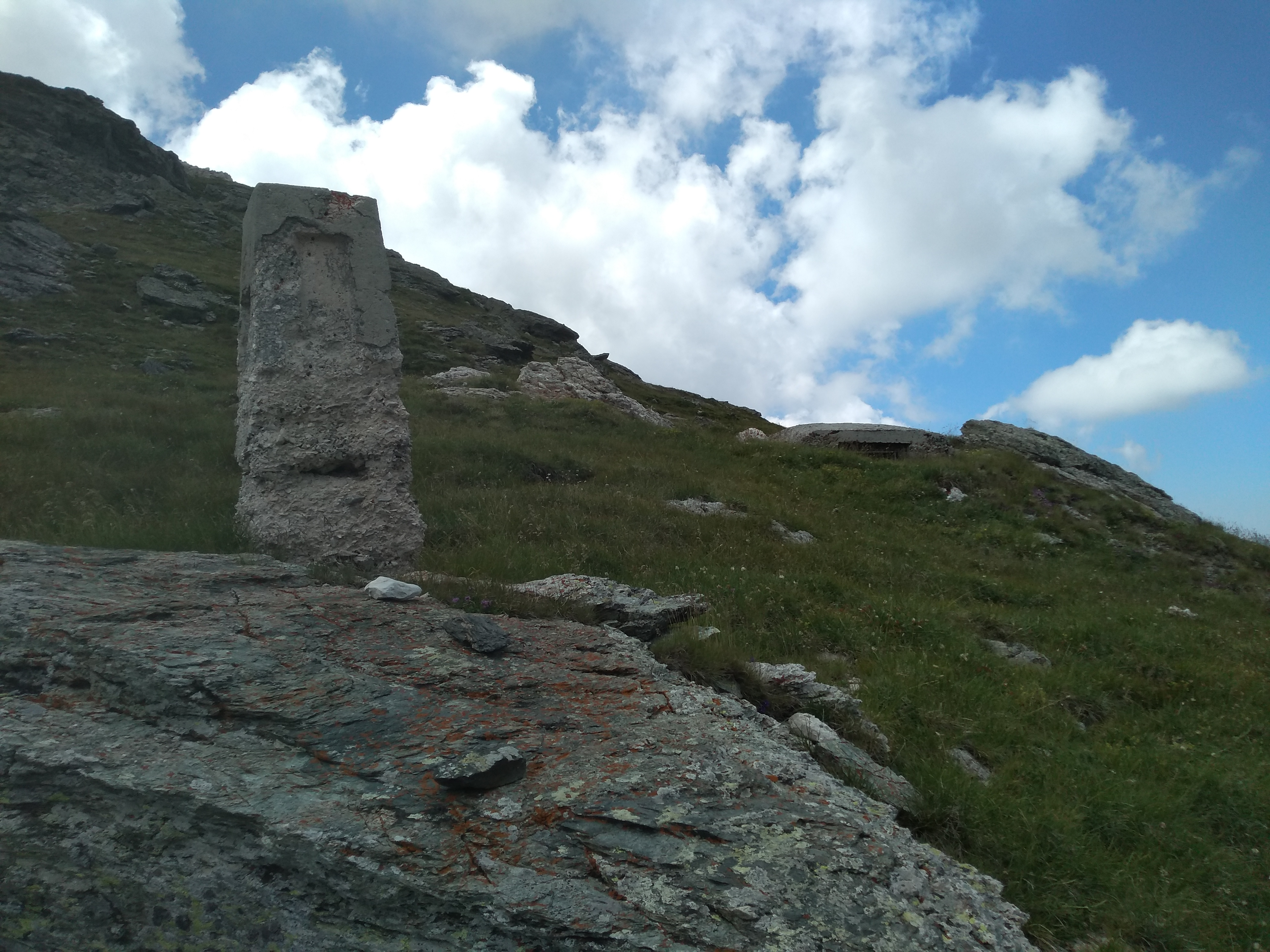 Border marker-stone and bunker at Mountain pass Mala Korabska Vrata (Small Korab Gate) on mount Korab, Macedonia